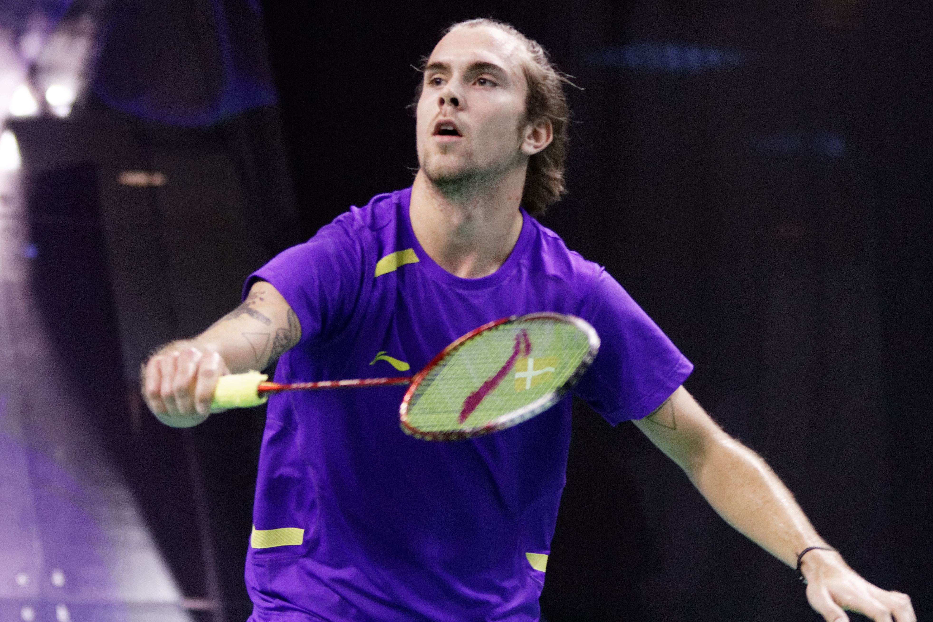 2013 French open. Men's singles eightfinal. Hans-Kristian Vittinghus vs Jan Ø. Jørgensen.